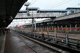 jhansi